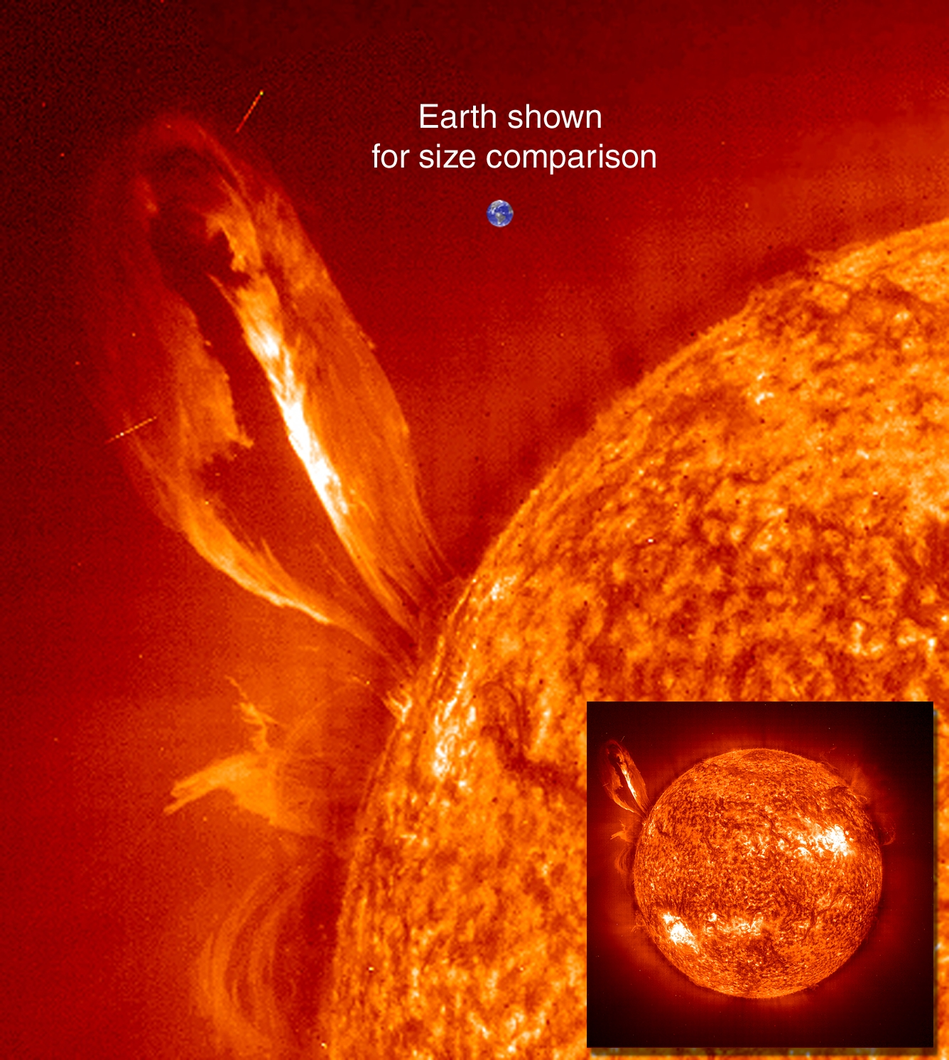 This illustration shows the approximate size of Earth compared to the Sun.